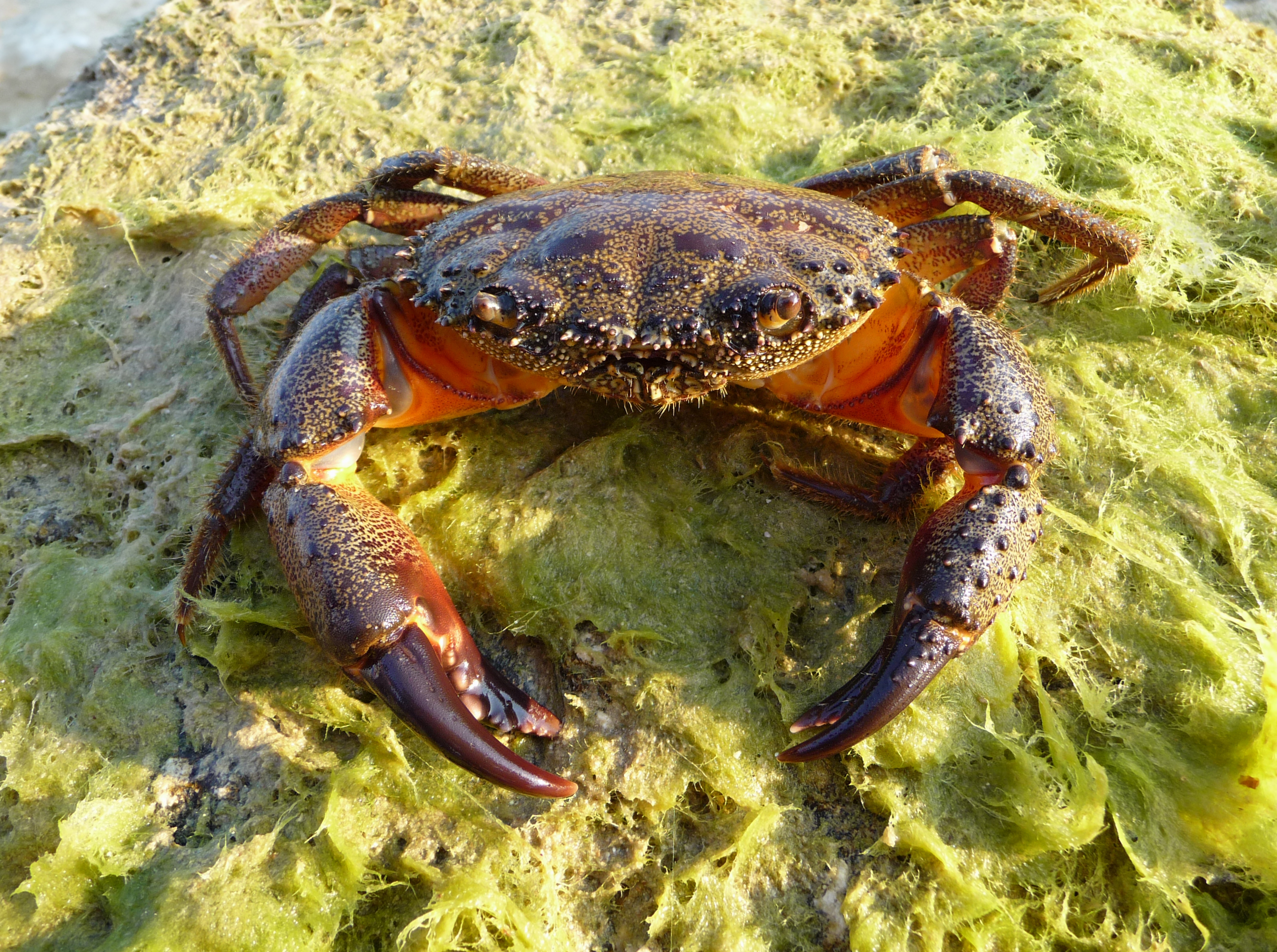 Eriphia verrucosa old male, sometimes called the warty crab or yellow crab.